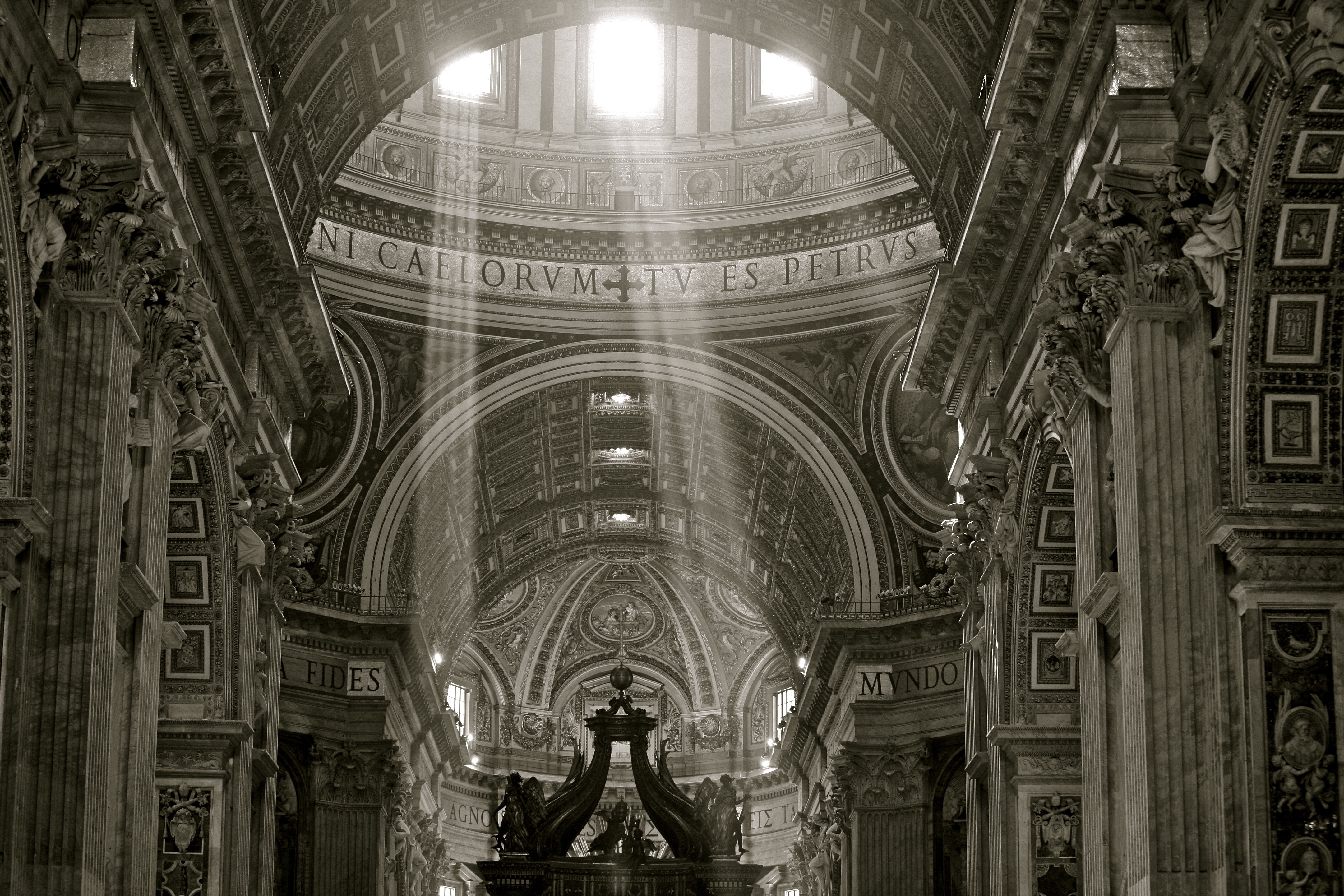 Steams of Light